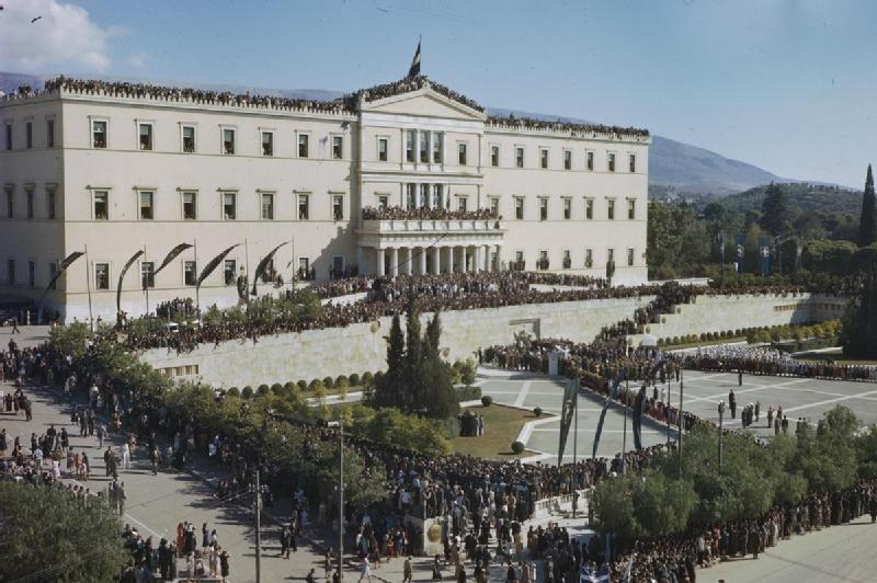 The New Government of Greece Enters Athens, 18 October 1944 The Greek Prime Minister Georgios Papandreou made a speech which was broadcast to the whole country and afterwards laid a wreath on the Tomb of the Unknown Soldier in Athens.